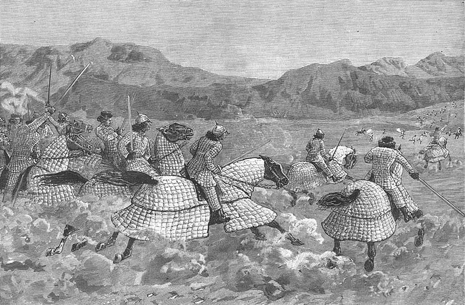 Beni Amer horseman, wearing quilted armour, are chasing down Ethiopian troops